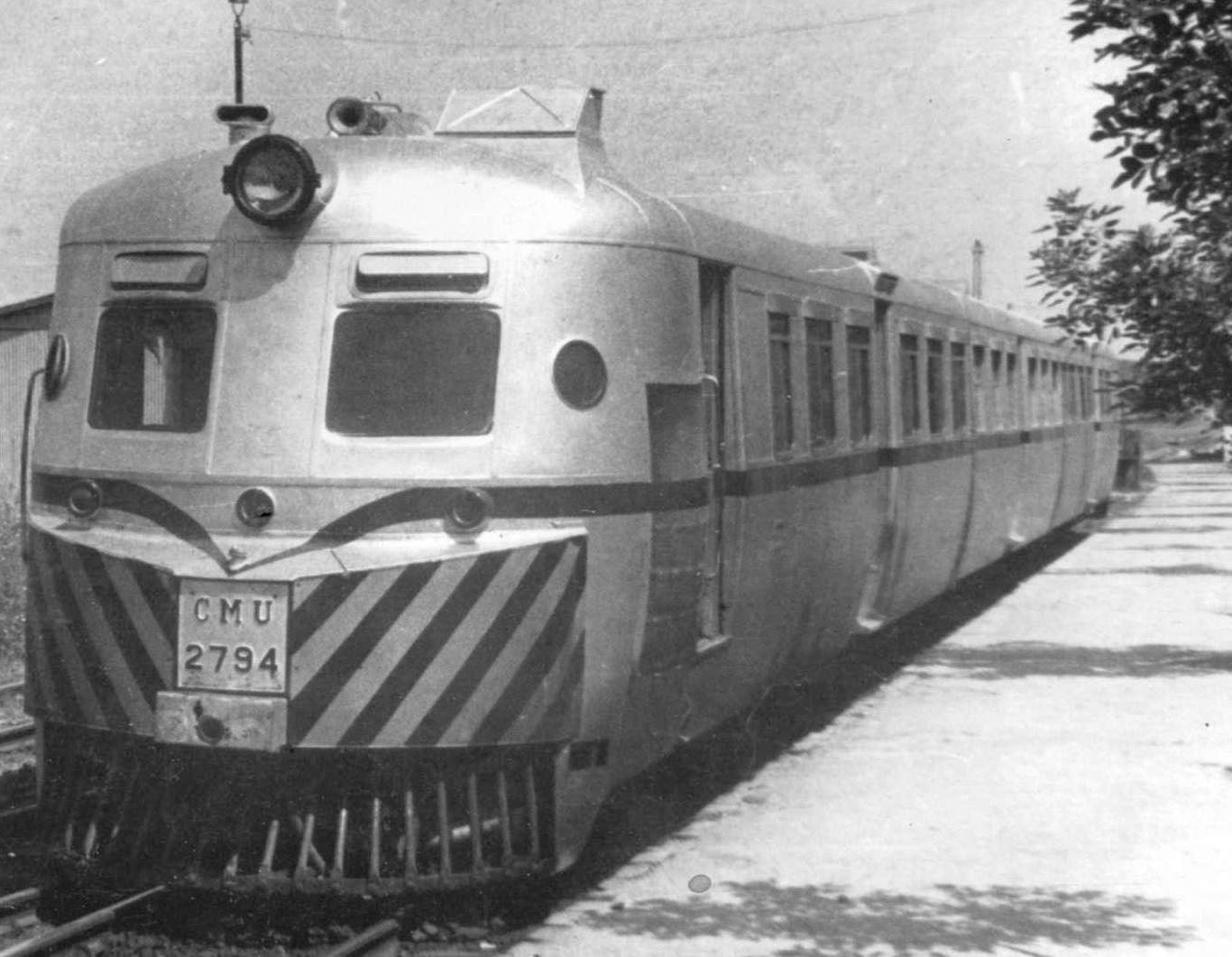 Birmingham Gardner CMU 2794 Railcar of former Buenos Aires Midland Railway on track 4 of Tapiales station, in service between this and Aldo Bonzi station. January 1966. The articulated car consists of two parts, with two motor bogies, one at each end, and a shared central unpowered bogie.